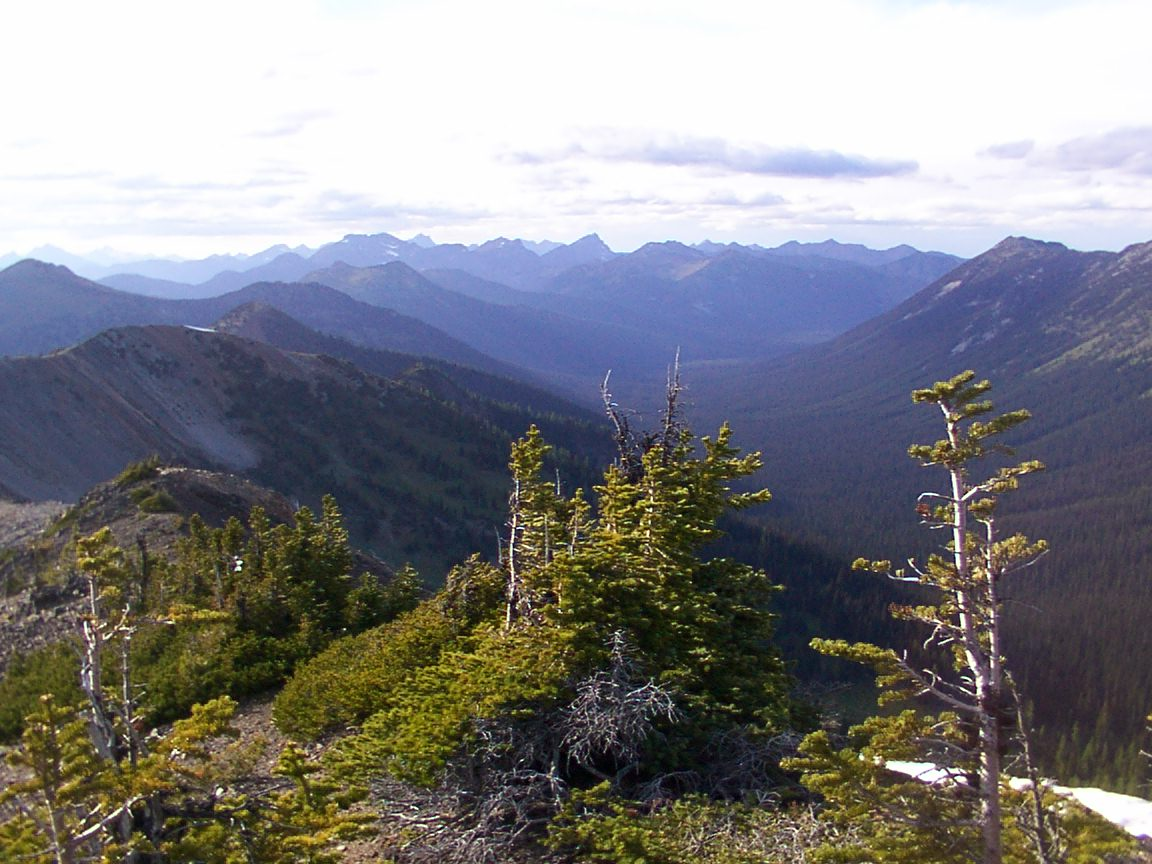 Pasayten Wilderness from Slate Peak lookout. digital photo by me